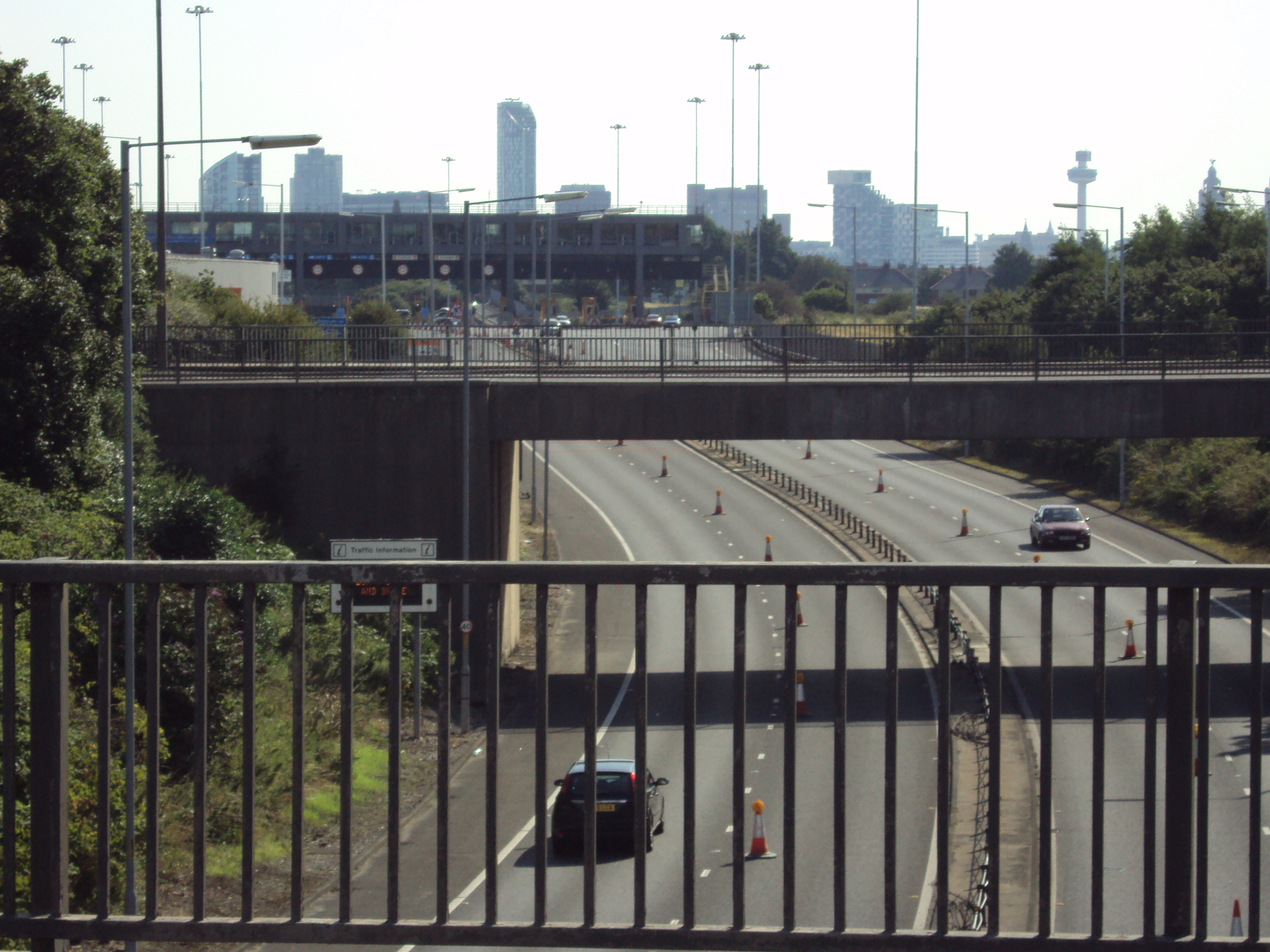 Kingsway Tunnel Approach Road, Wallasey, Wirral, England. Photo looking towards the tunnel toll booths. Liverpool skyline in the background.